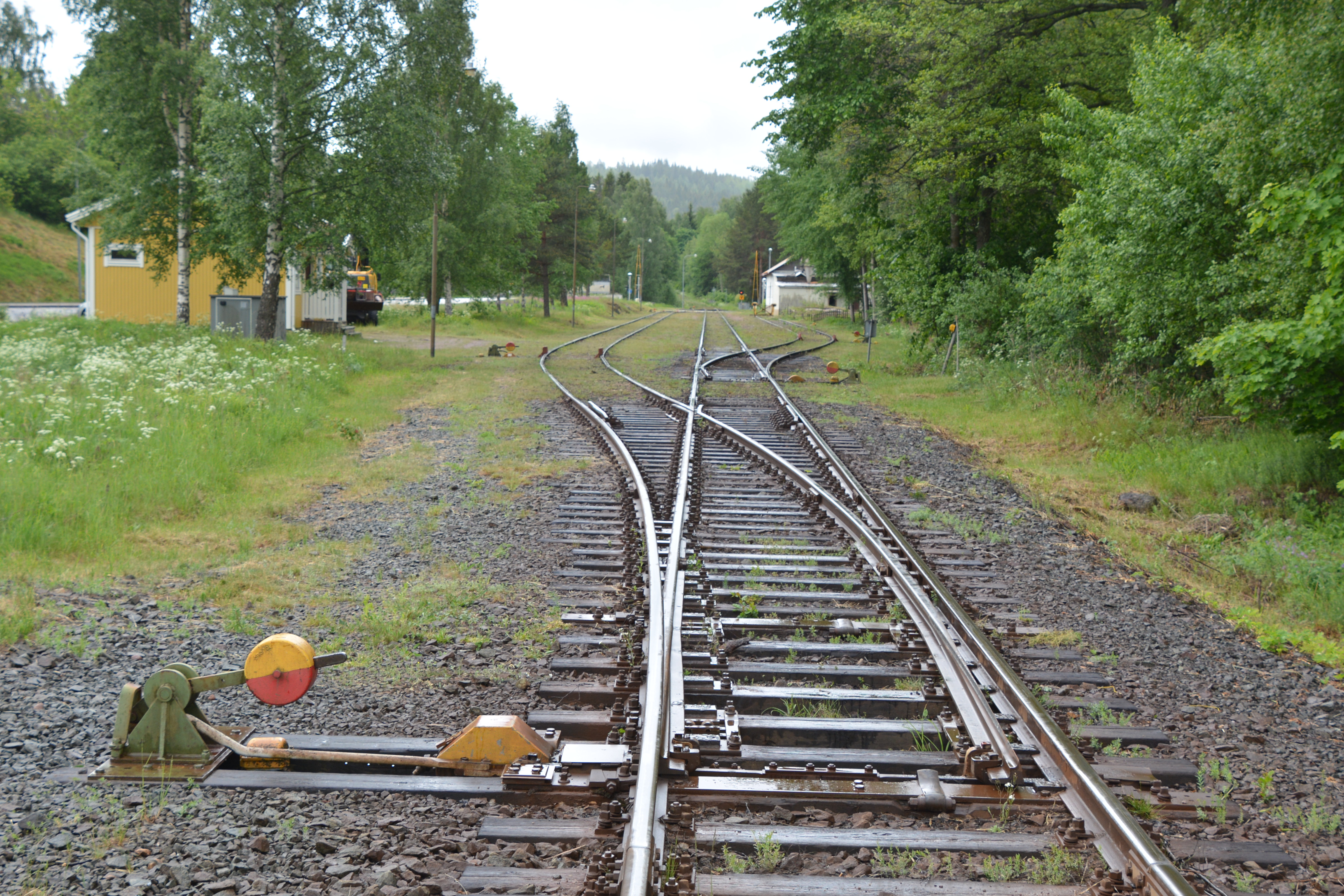 Railway point, Kvillsfors former railway station, Sweden.